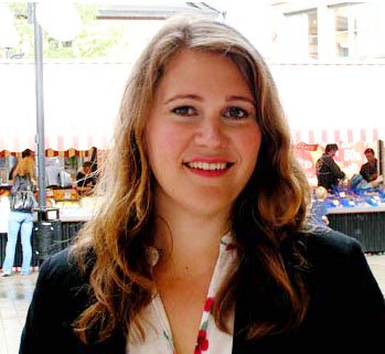 Minna Klintz, politician in the Municipal assembly of Lidingö, Sweden.